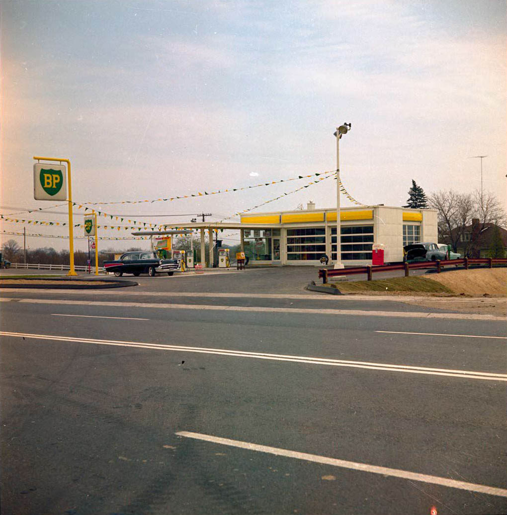 Photographer: Alexandra Studio ca. 1979 City of Toronto Archives Series 1057, Item 5238